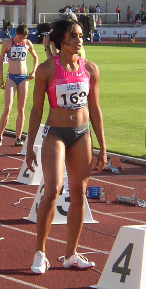 Athlete Carol Rodríguez of Puerto Rico before her start in women's 200 m run at 17th edition of the Josef Odložil Memorial (EAA Premium Meeting, Na Julisce Stadium, Prague, Czech Republic, 14 June 2010). Rodríguez finished fourth in 23.43 s.